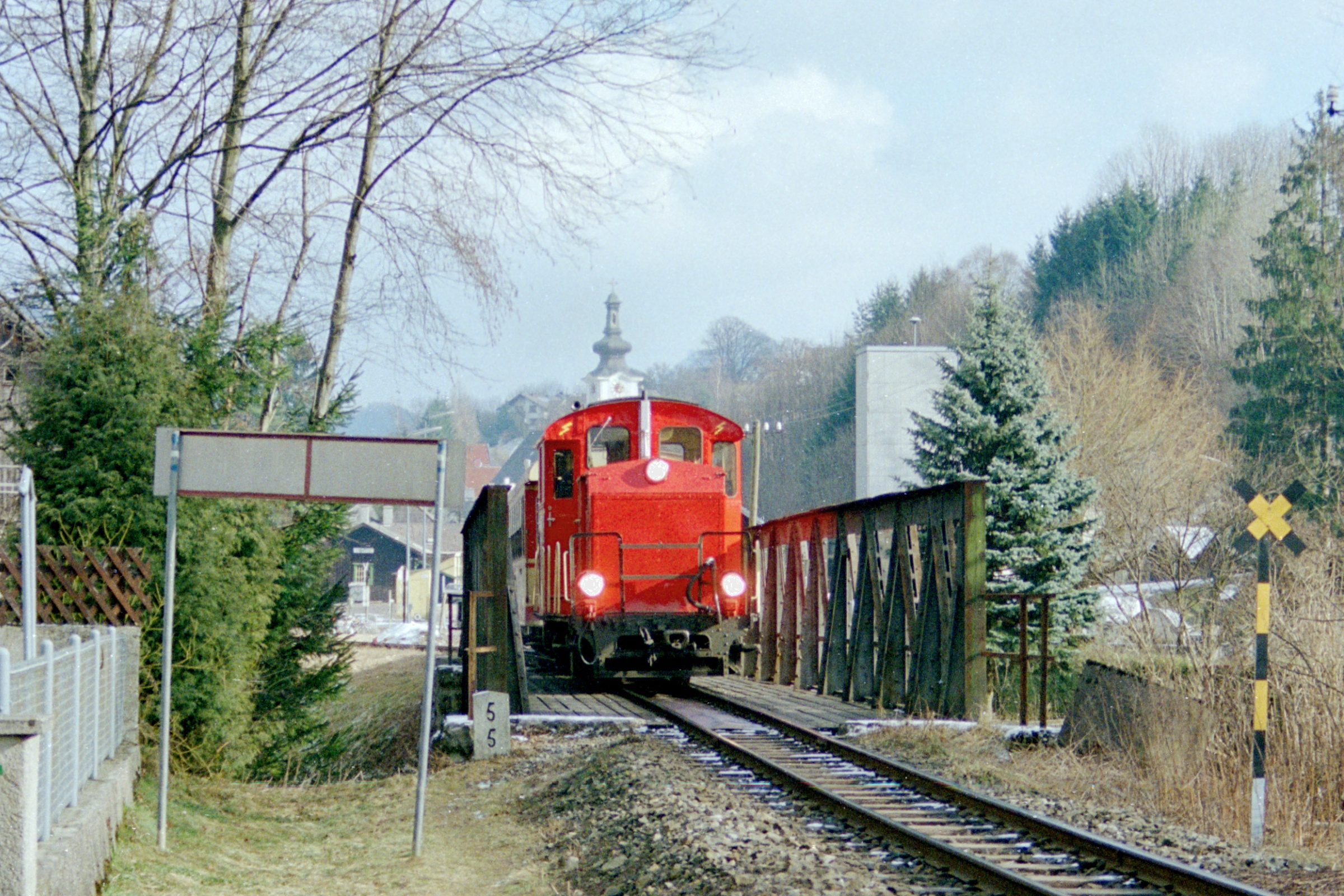 Ybbstalbahn train with class 2091 diesel engine from Ybbsitz to Waidhofen an der Ybbs passing the bridge over the Kleine Ybbs in Ybbsitz.